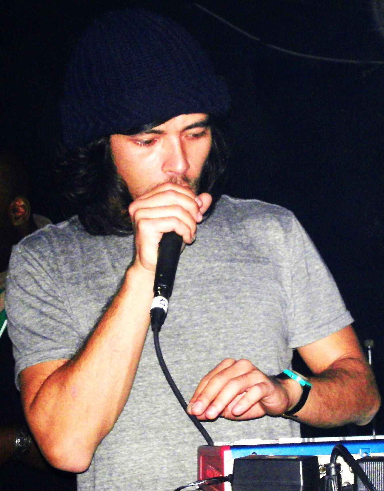 Onra in Montreal, November 7, 2010